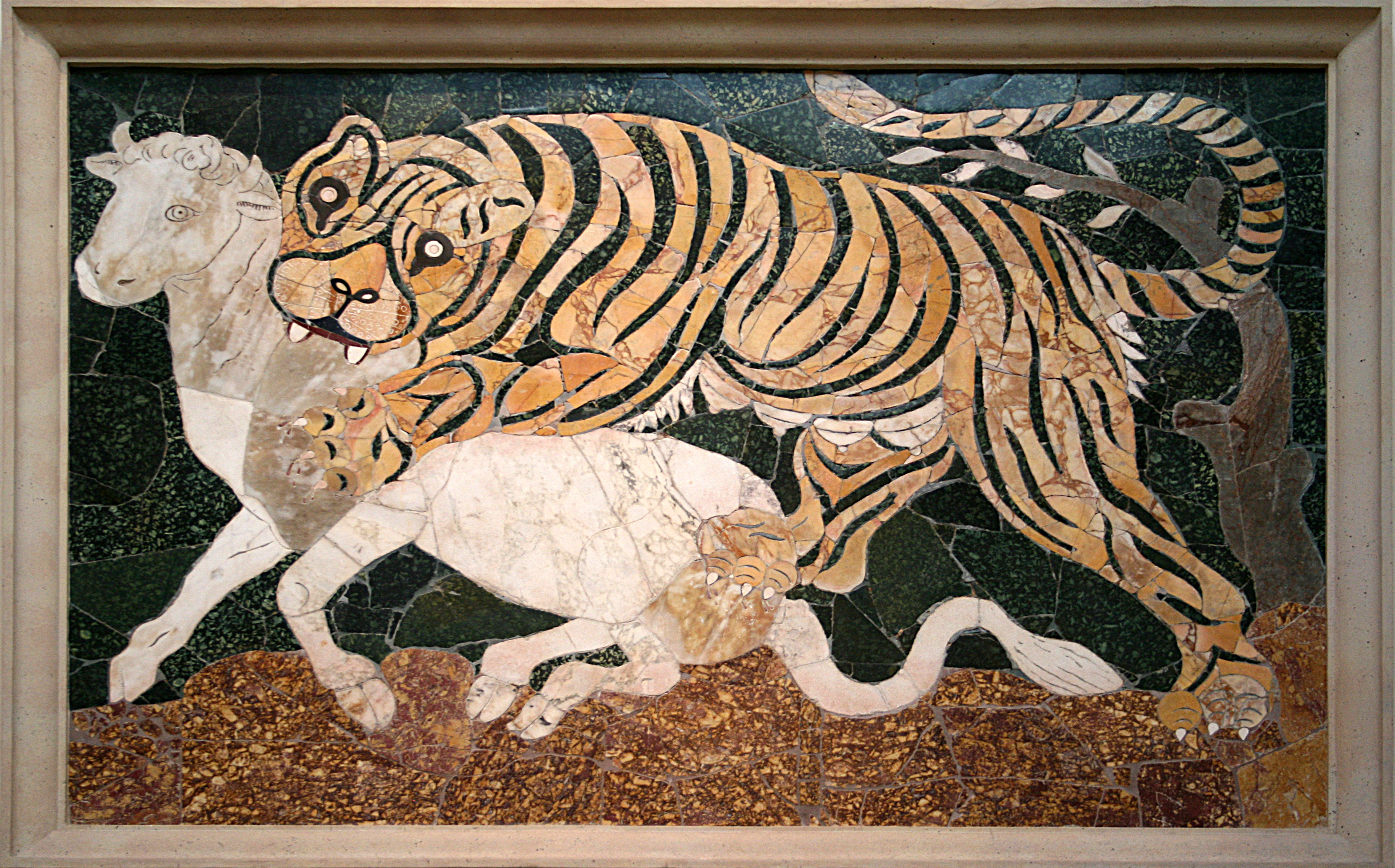 Opus sectile panel: tiger attacking a calf. Coloured marbles, Roman artwork from the second quarter of the 4th century CE. From the basilica of Junius Bassus on the Esquiline Hill.